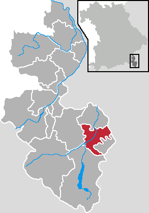 Locator maps of municipalities in Bavaria - District Berchtesgadener Land